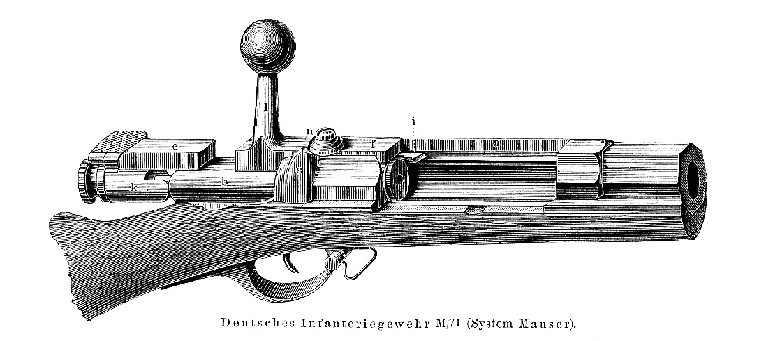 German Mauser M 1871 Rifle